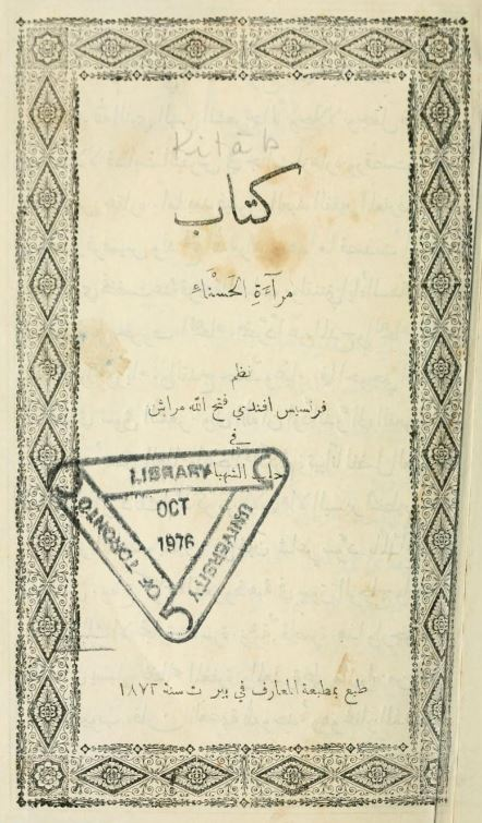 Work by Syrian writer Francis Marrash.